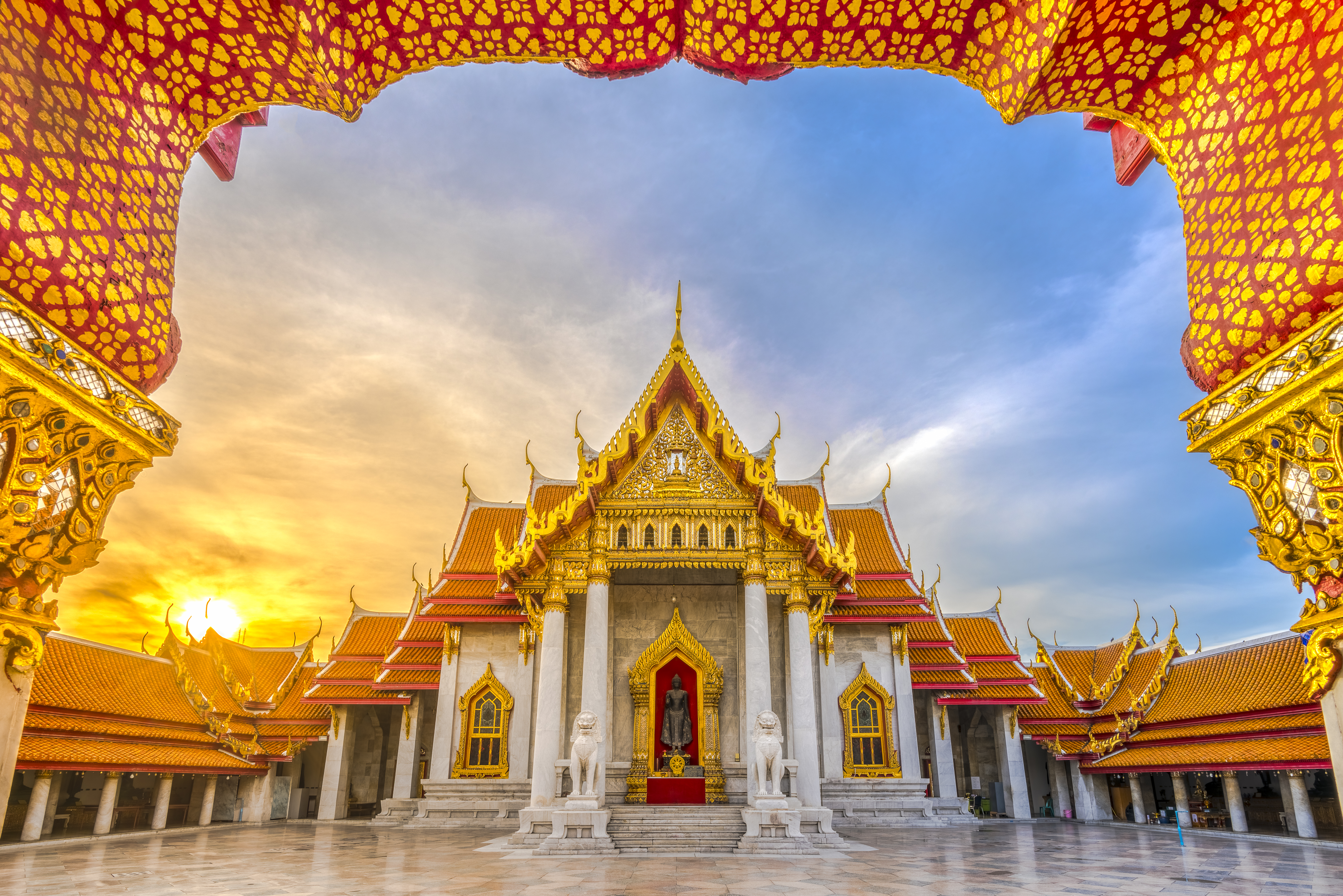 Wat Benchamabophit Dusitvanaram, a Buddhist temple in the Dusit district of Bangkok, Thailand